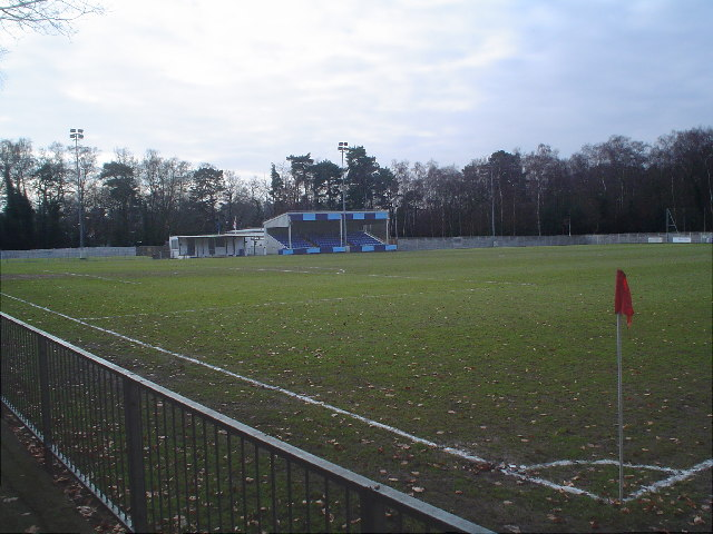 Theatre of Dreams.......